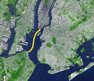 The route of the Staten Island Ferry across Upper New York Bay. Based on public domain image courtesy of NASA.